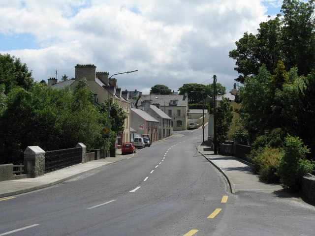 Kilmacrenan, Co. Donegal Looking south east from the bridge over the Lurgy River. The road is the N56.